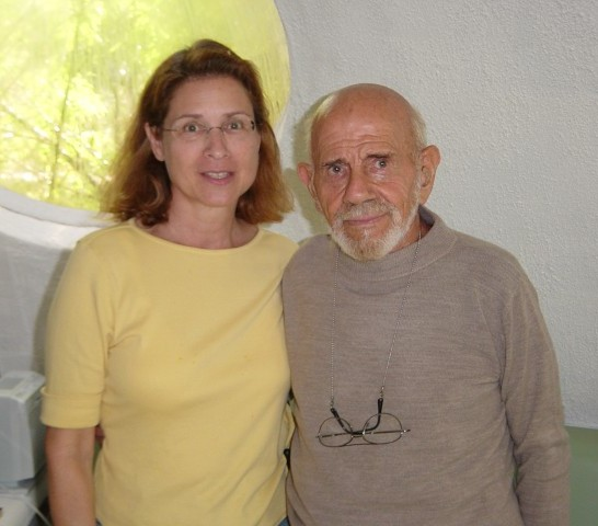 Jacque Fresco.